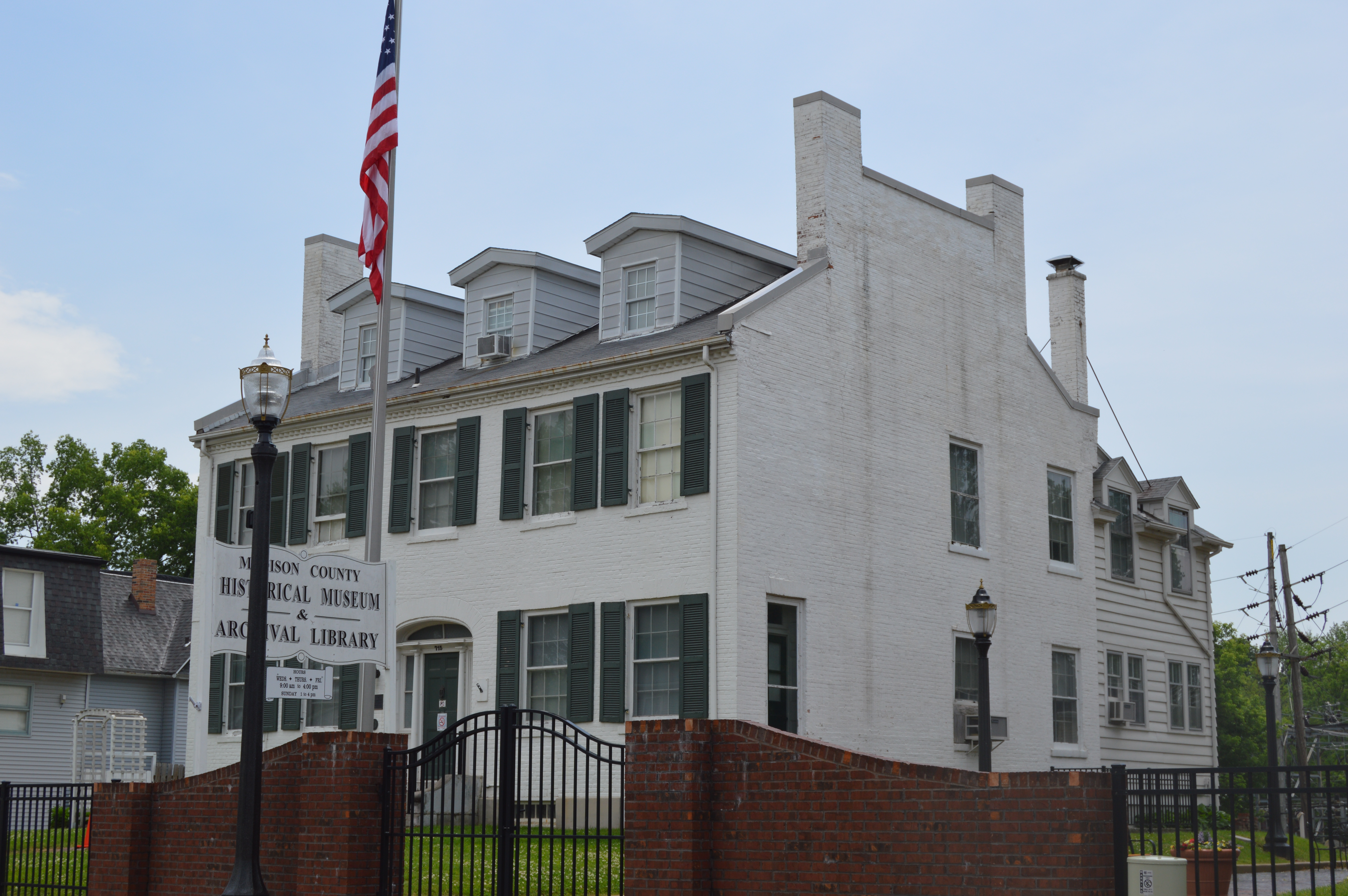 Front and northern side of the John Weir House, located at 715 N. Main Street (Illinois Routes 143/159) in Edwardsville, Illinois, United States. Built in 1836, it is listed on the National Register of Historic Places.